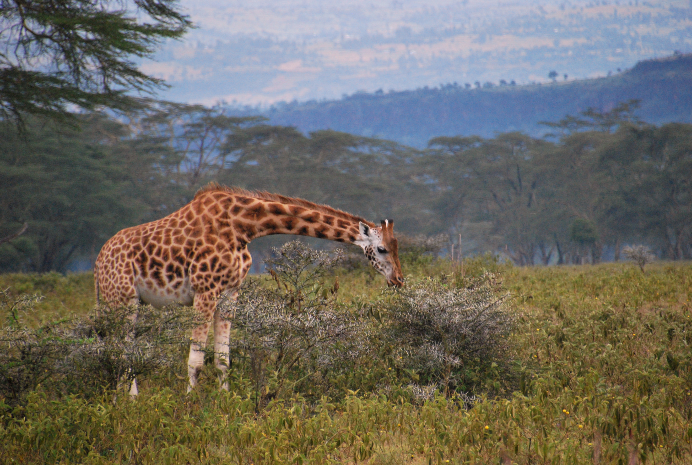 Rothschild's giraffe at Lake Nakuru NP, Kenya